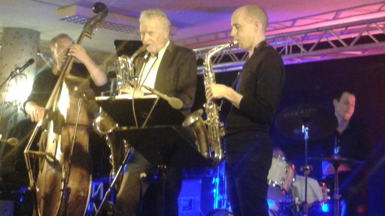 Bjørn Alterhaug Quintet at Vossajazz 2016